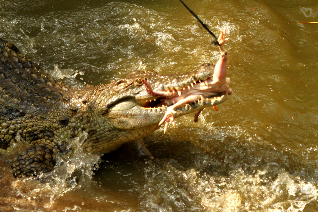 Feeding enrichment for the crocodiles at the Safari zoo in Israel. The food is tied to a rope from above, encouraging the crocodiles to leap out of the water.